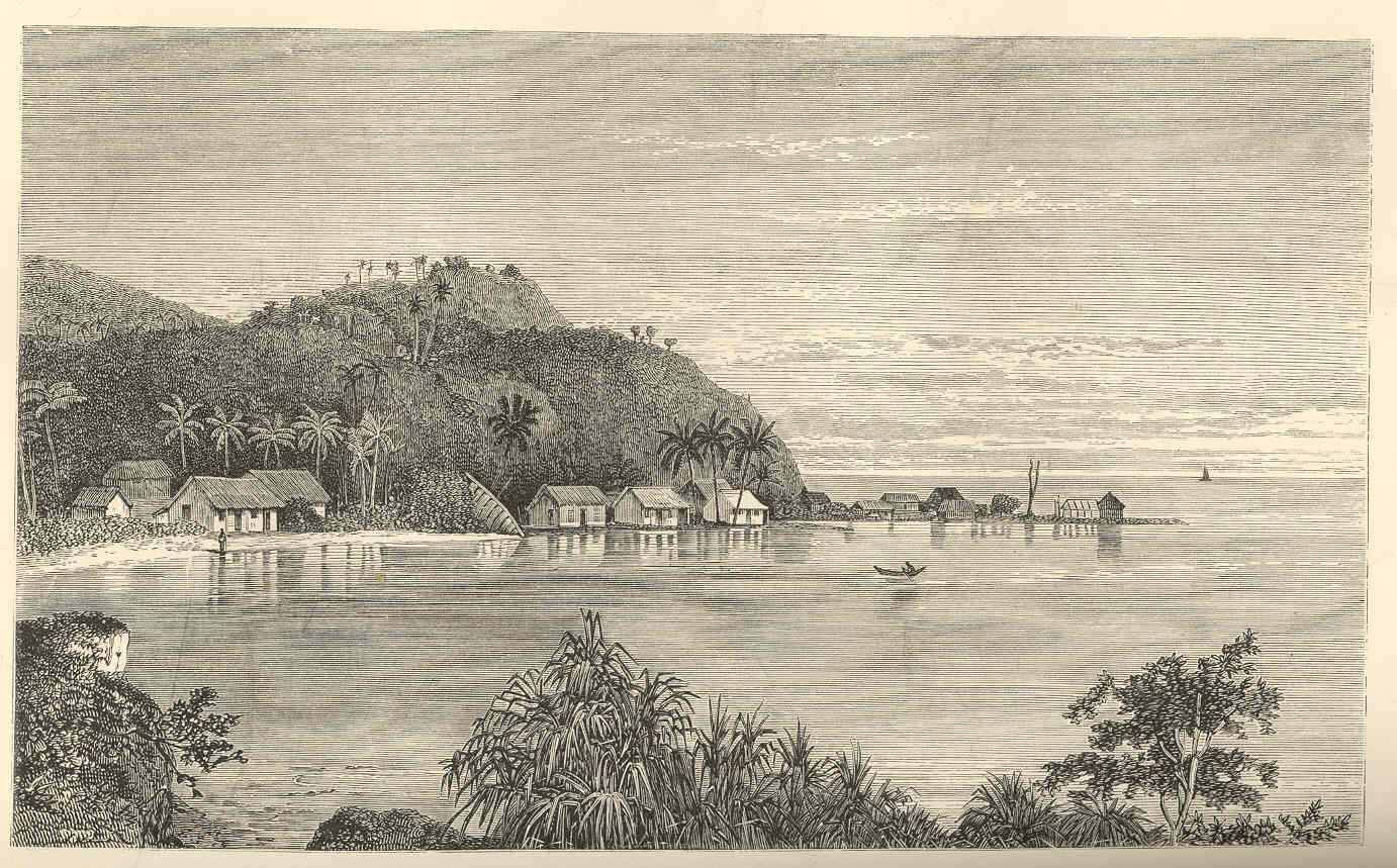 Levuka Subject: Levuka (Fiji) Geographic Subject: Fiji--Levuka Tag: Coasts